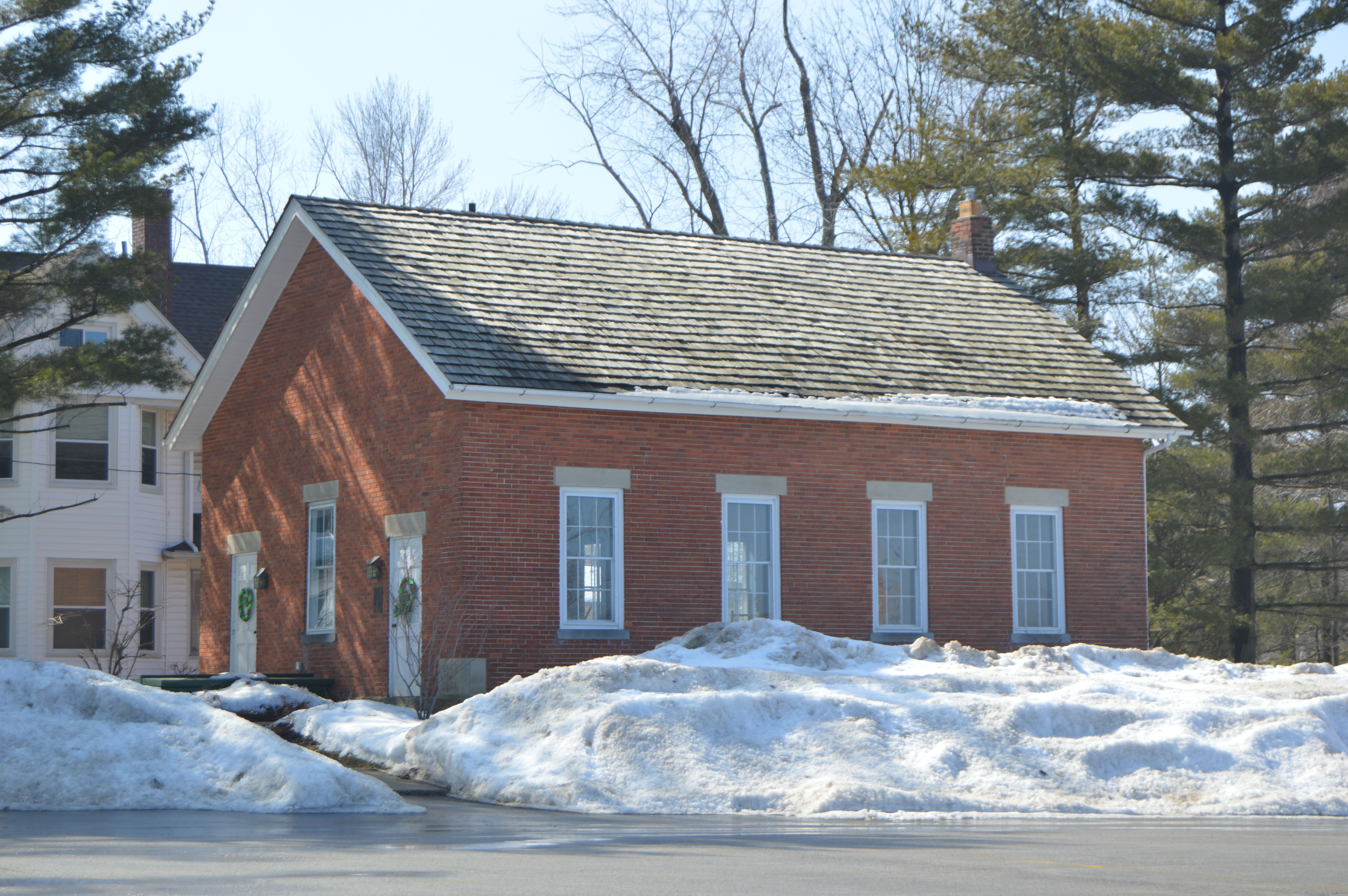 Northern side and front of the Old Euclid District 4 Schoolhouse, located on the western side of Richmond Road (State Route 175) at the Oakmont Drive intersection in Lyndhurst, Ohio, United States. Built in 1920, it is listed on the National Register of Historic Places.